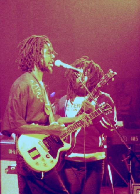 Peter Tosh with Robbie Shakespeare, Bush Doctor Tour, Cardiff, 1978